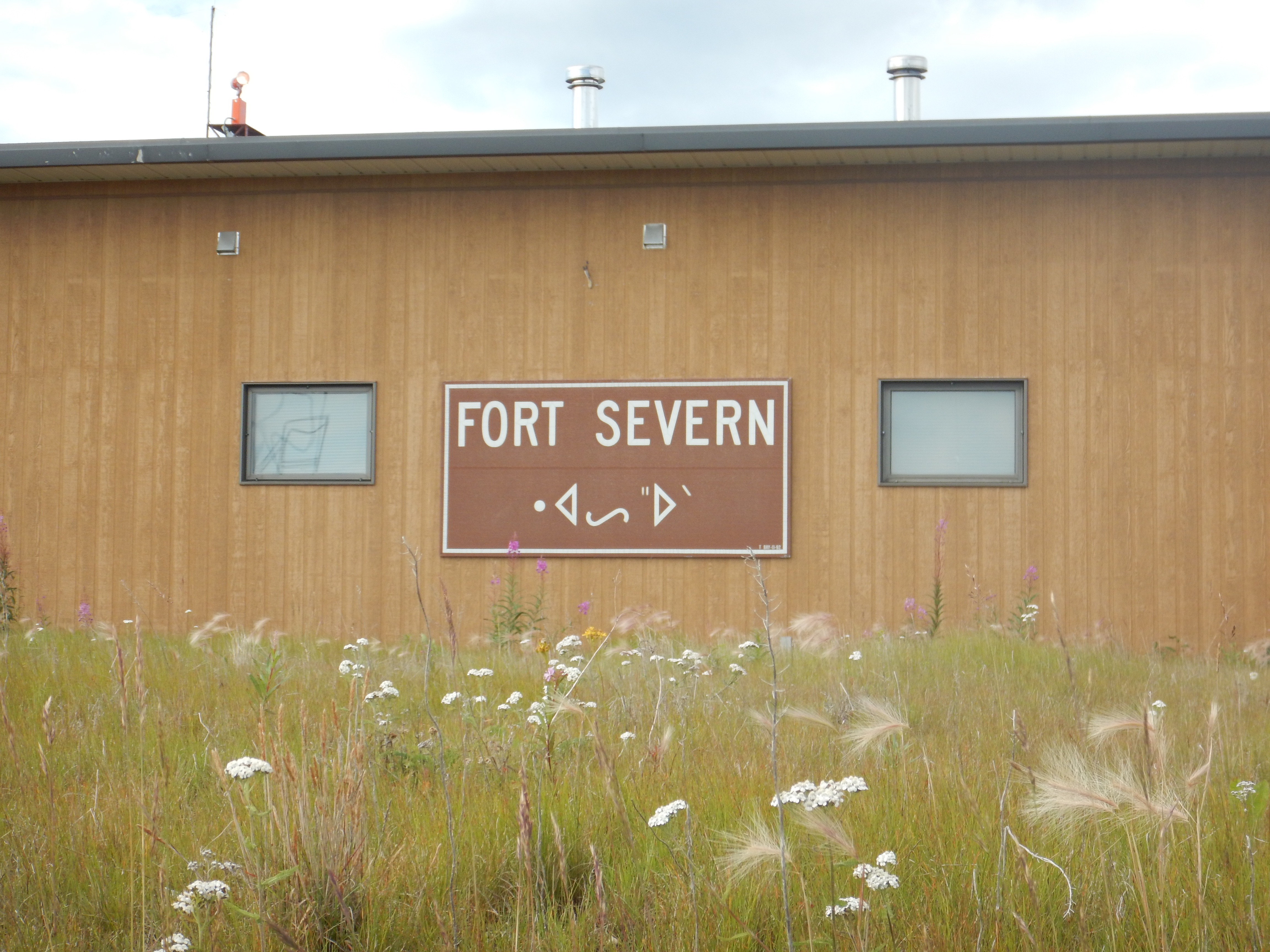 Sign at the Fort Severn Airport written in English and Cree. Taken August 9 2015